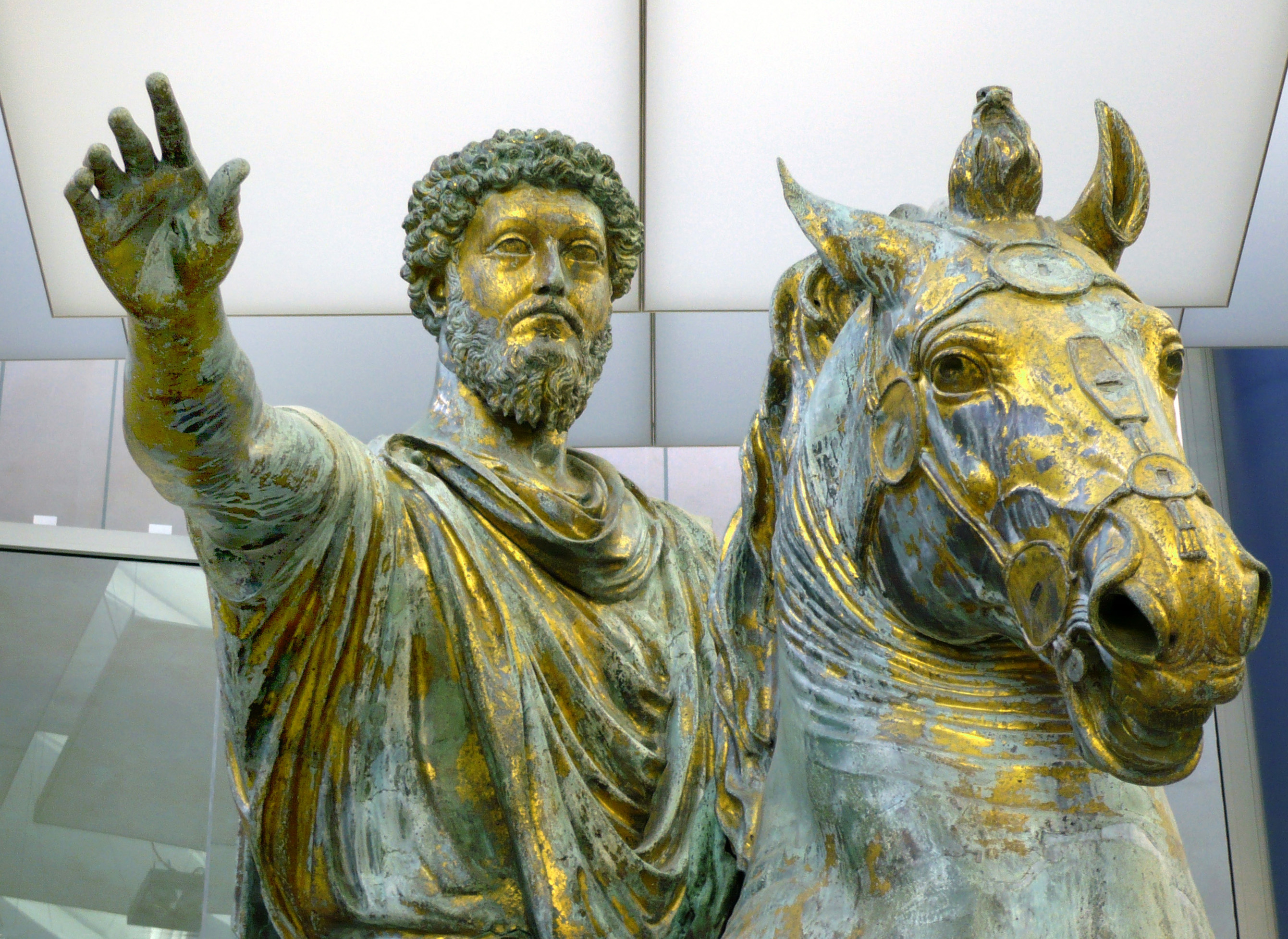 Marco Aurelio's original statue.